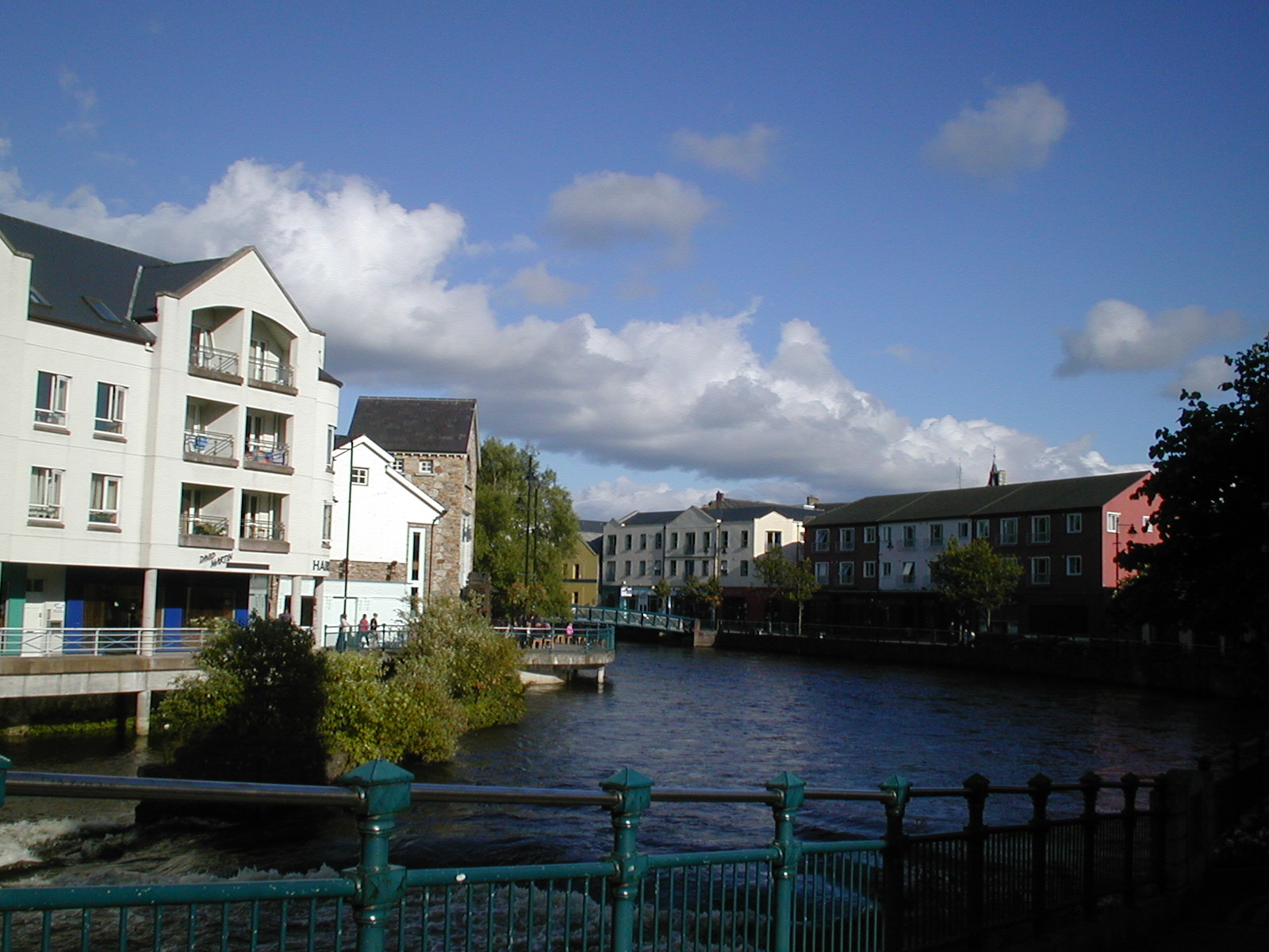 Town Centre of Sligo, Ireland